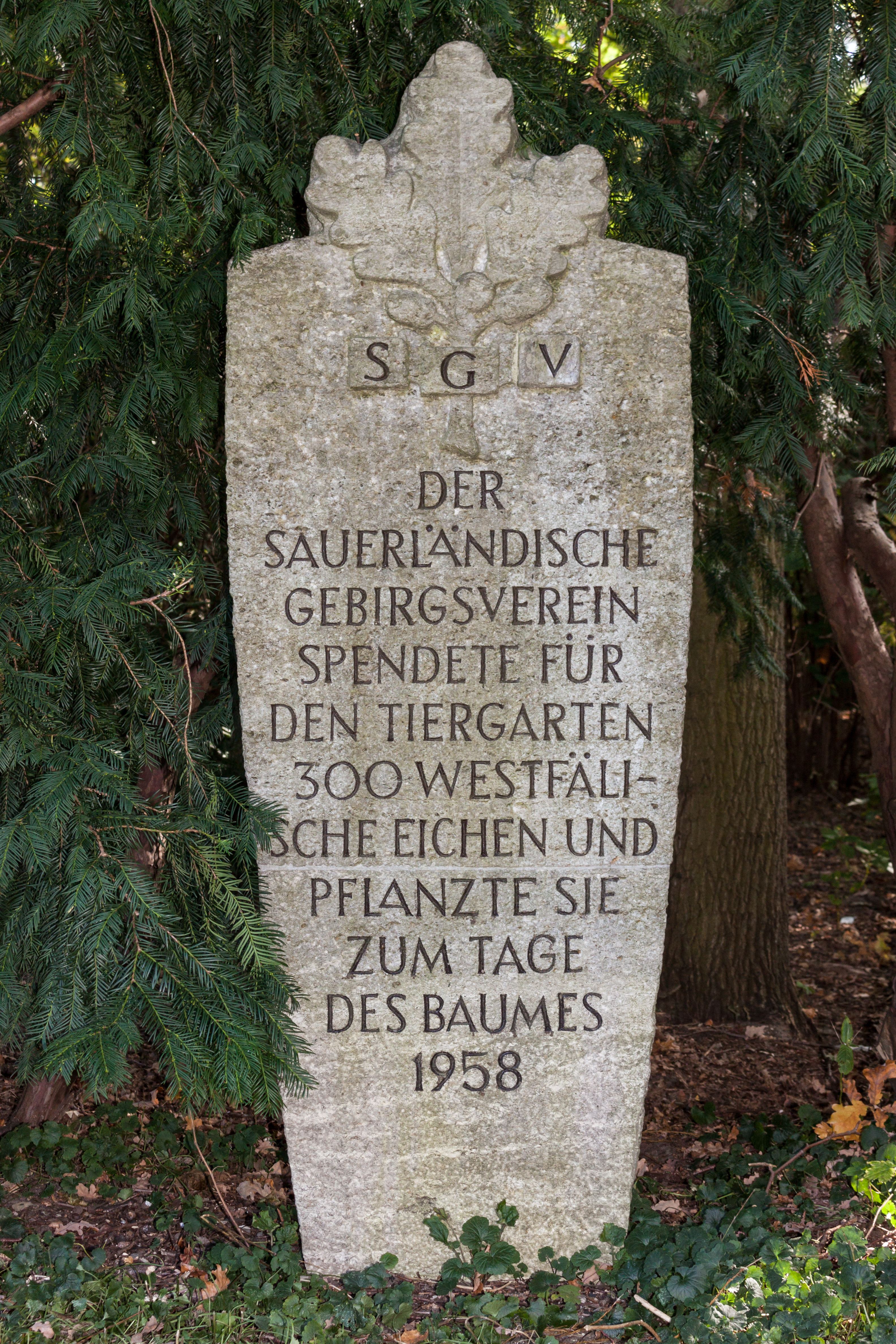 Memorial stone for the tree donation of the Sauerland Mountain Club in the Tiergarten (Berlin).